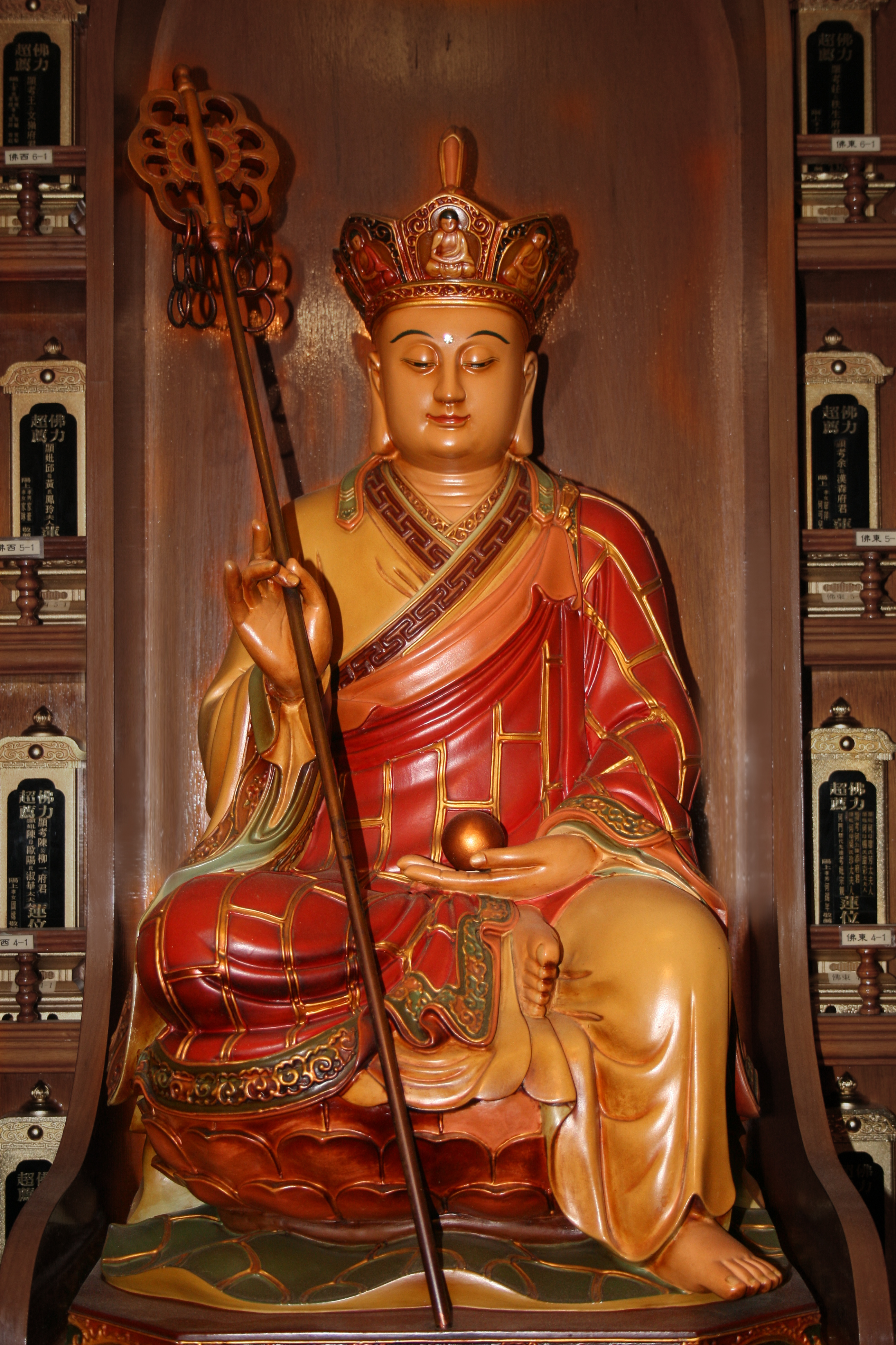 Wood statue of Ksitigarbha Bodhisattva. Fo Guang Shan Buddhist temple, London, England.